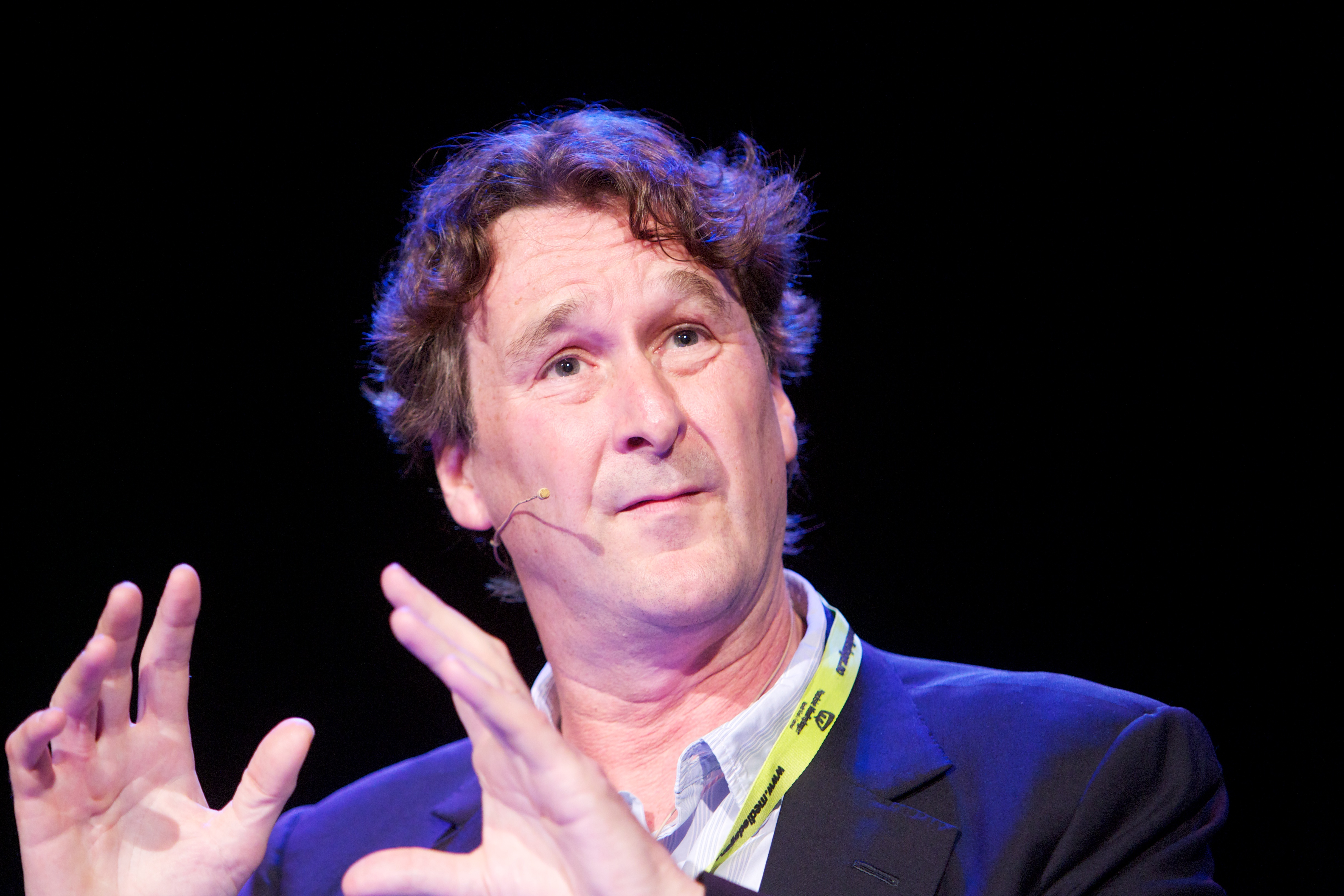 Tristan Davies at The Nordic Media Festival, Bergen, May 2011. Photo: Eirik Helland Urke